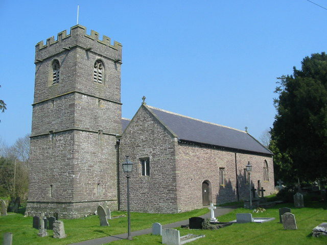 The church of St Paulinus in Llangors, near to Llangors, Powys, Great Britain.